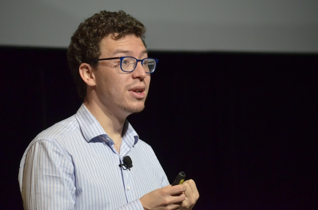 Conferencia de Luis Von Ahn, creador de Duolingo durante Wikimanía 2015 en la Ciudad de México.